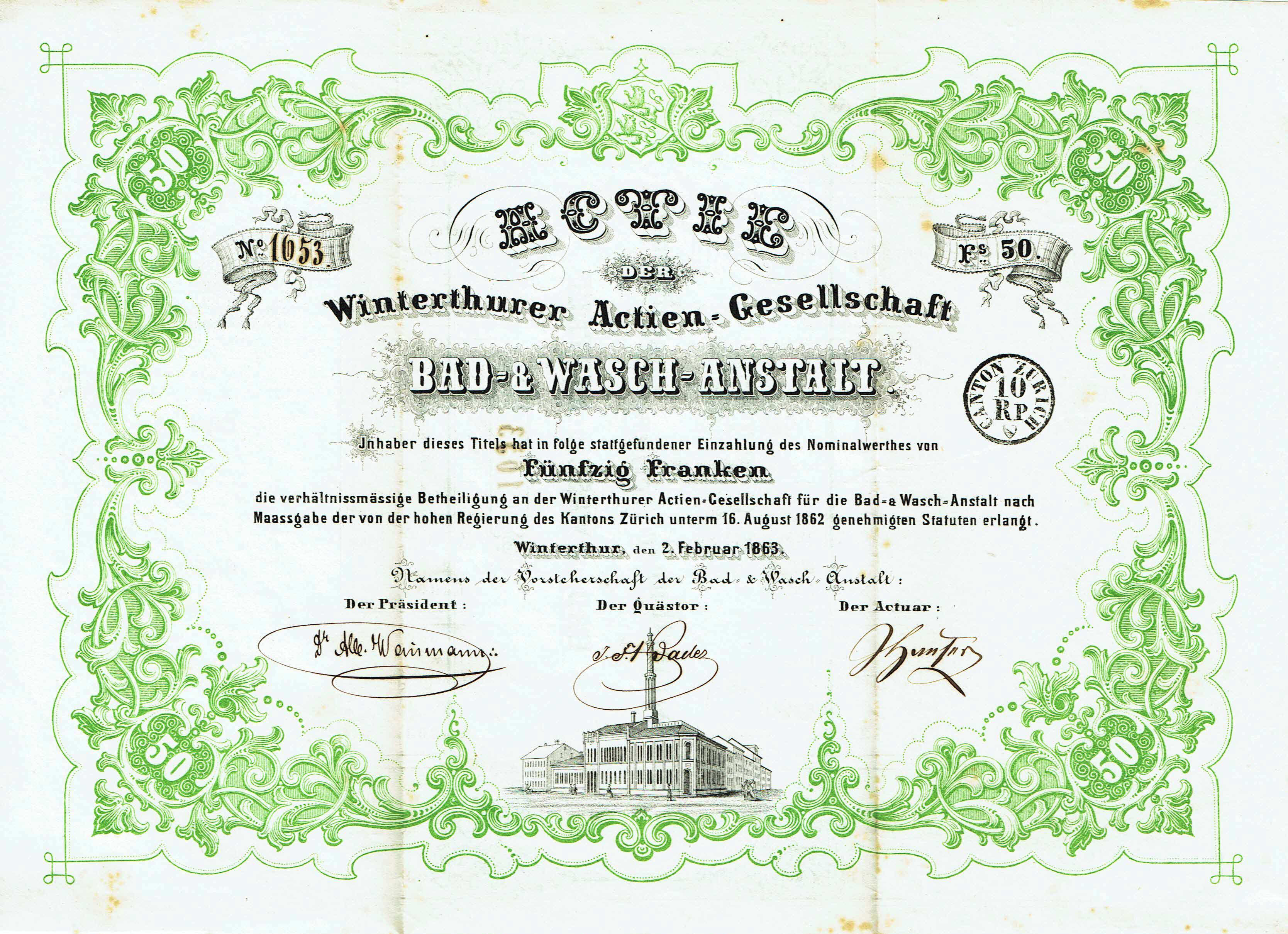 Share of the Winterthurer AG Bad- & Wasch-Anstalt, issued 2. February 1863